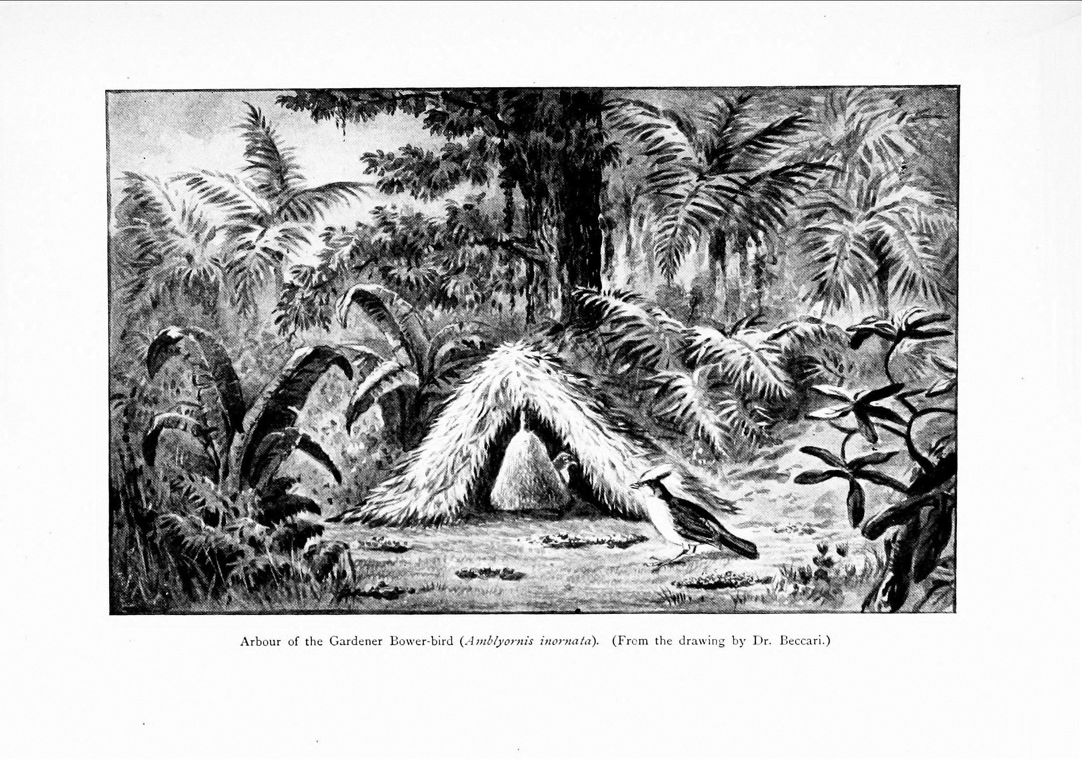 Wonders of the bird world